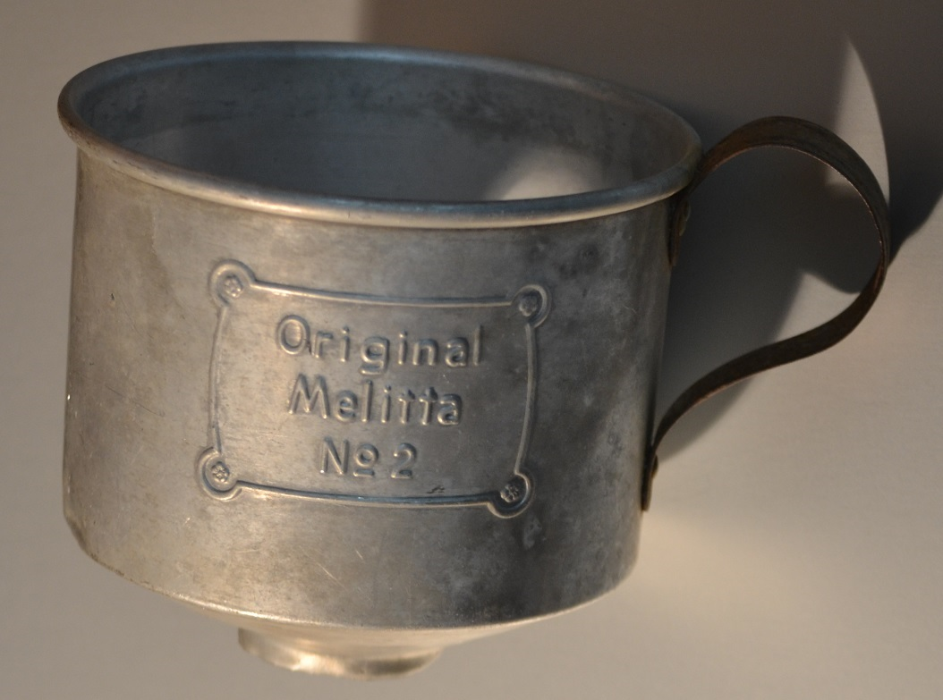 Melitta filter can made from aluminium for 120mm paper filter sheets